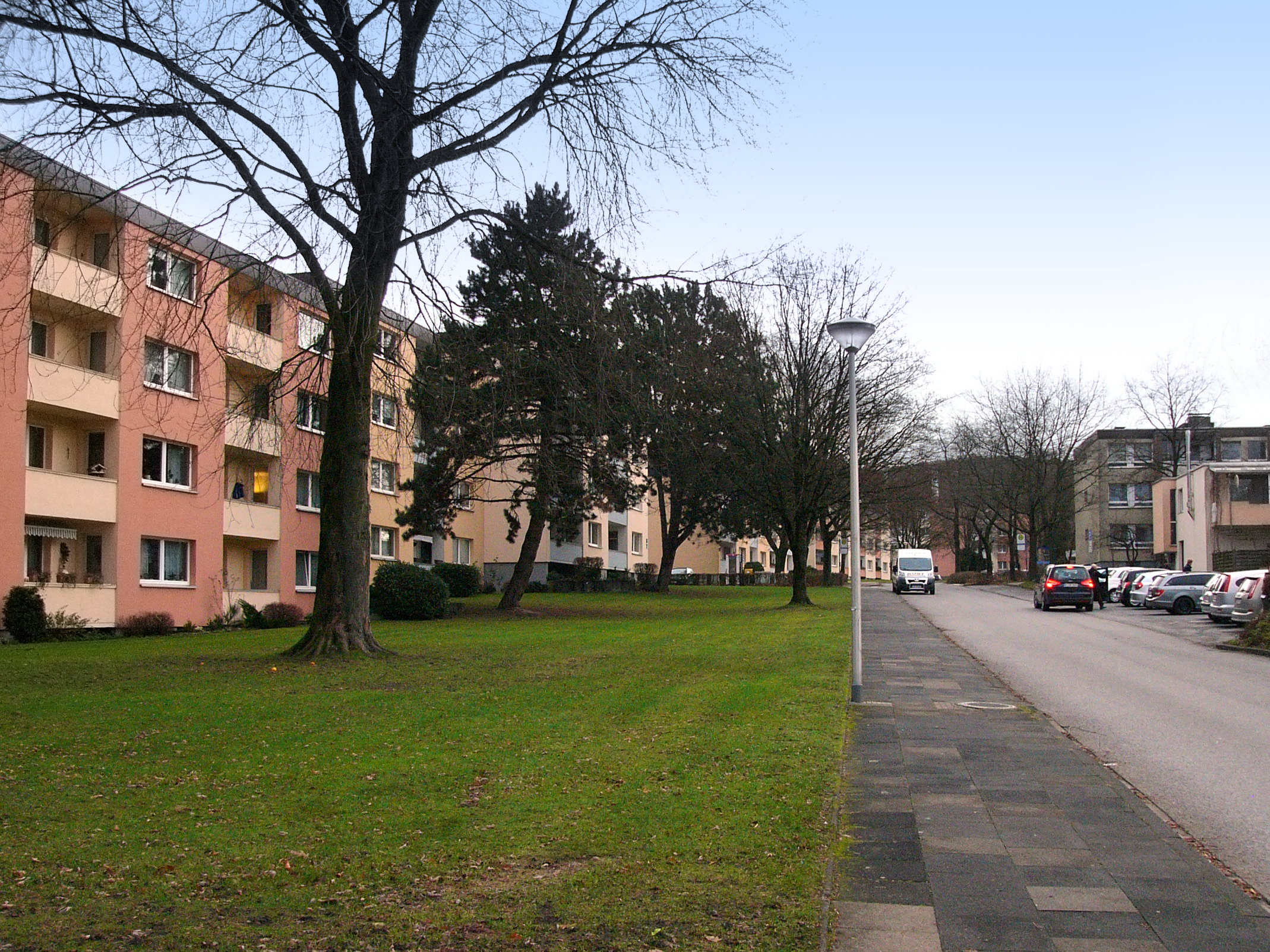 Adolf-Sültemeier-Straße in Oerlinghausen, Germany